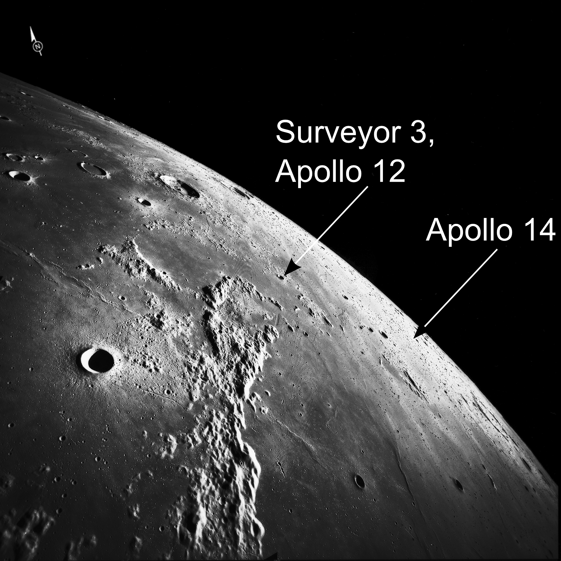 Surveyor 3 landing spot